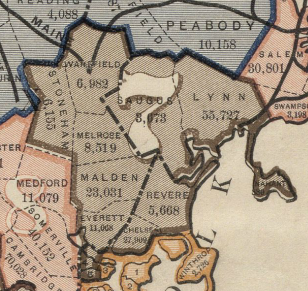 Detail of: Outline map of Massachusetts, showing population according to the United States census of 1890, and congressional districts